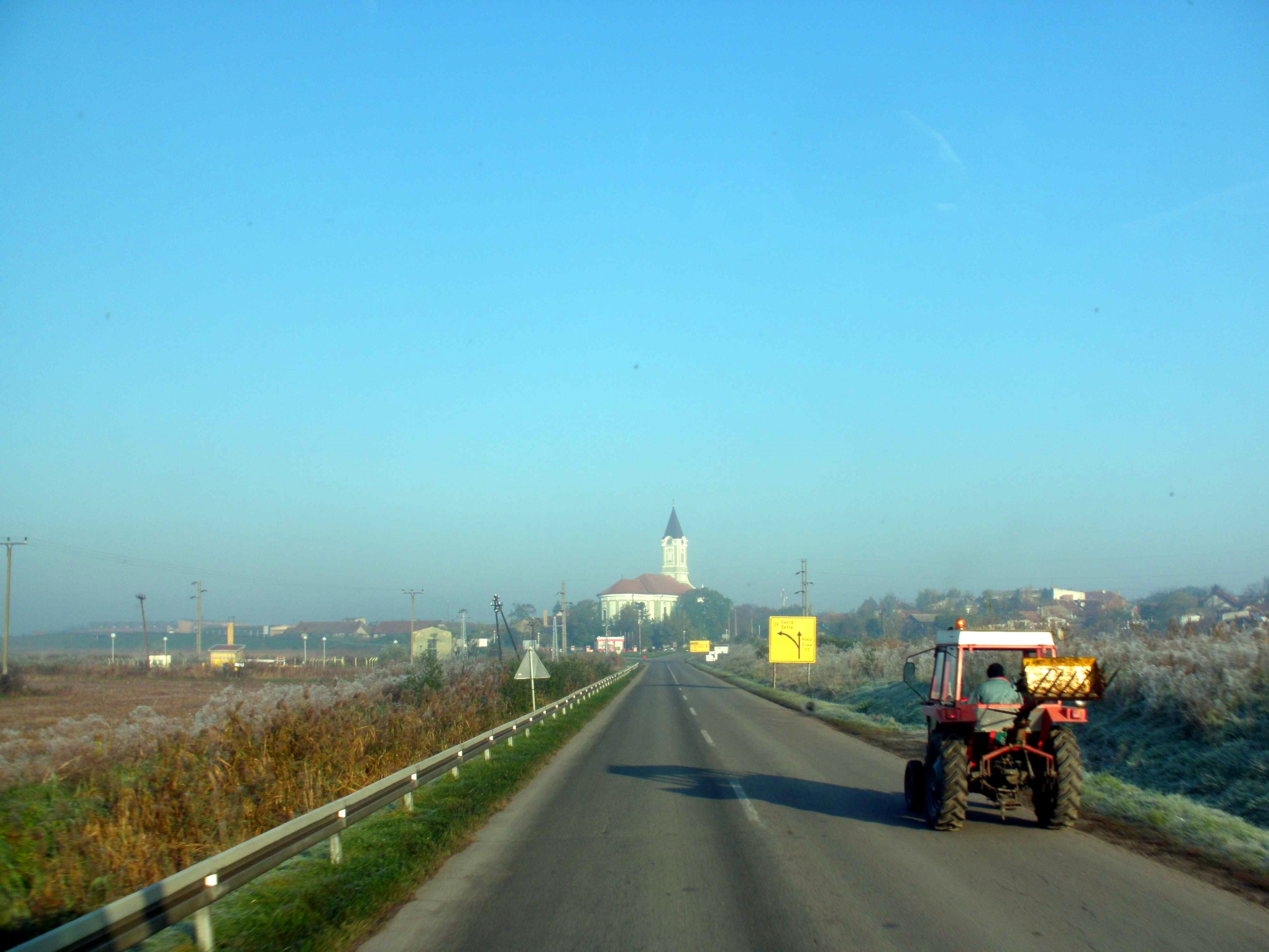 traktor before village Čoka in Banat with Catholic church